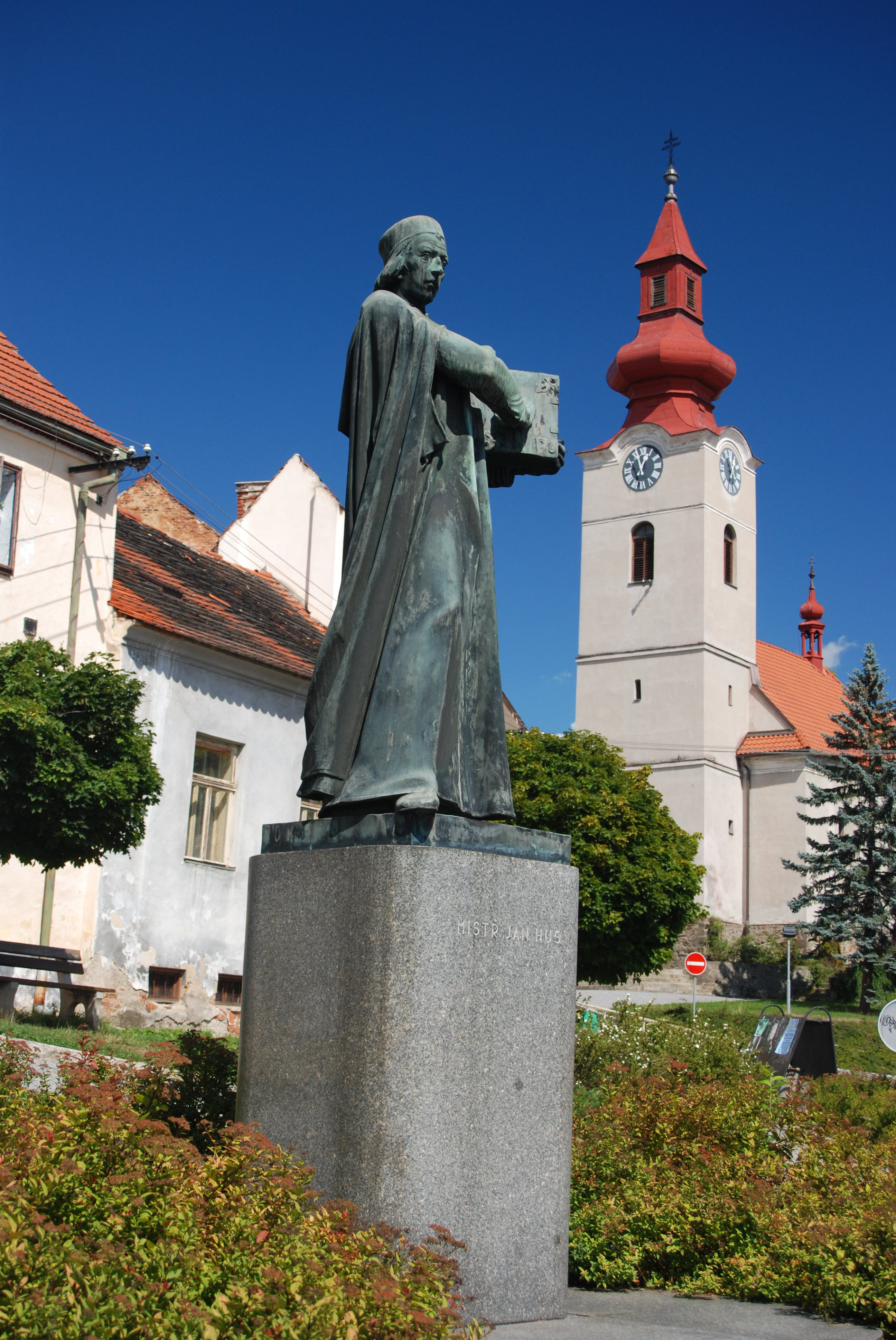 Jan Hus - monument in town of Husinec (Prachatice District, Czech Republic)